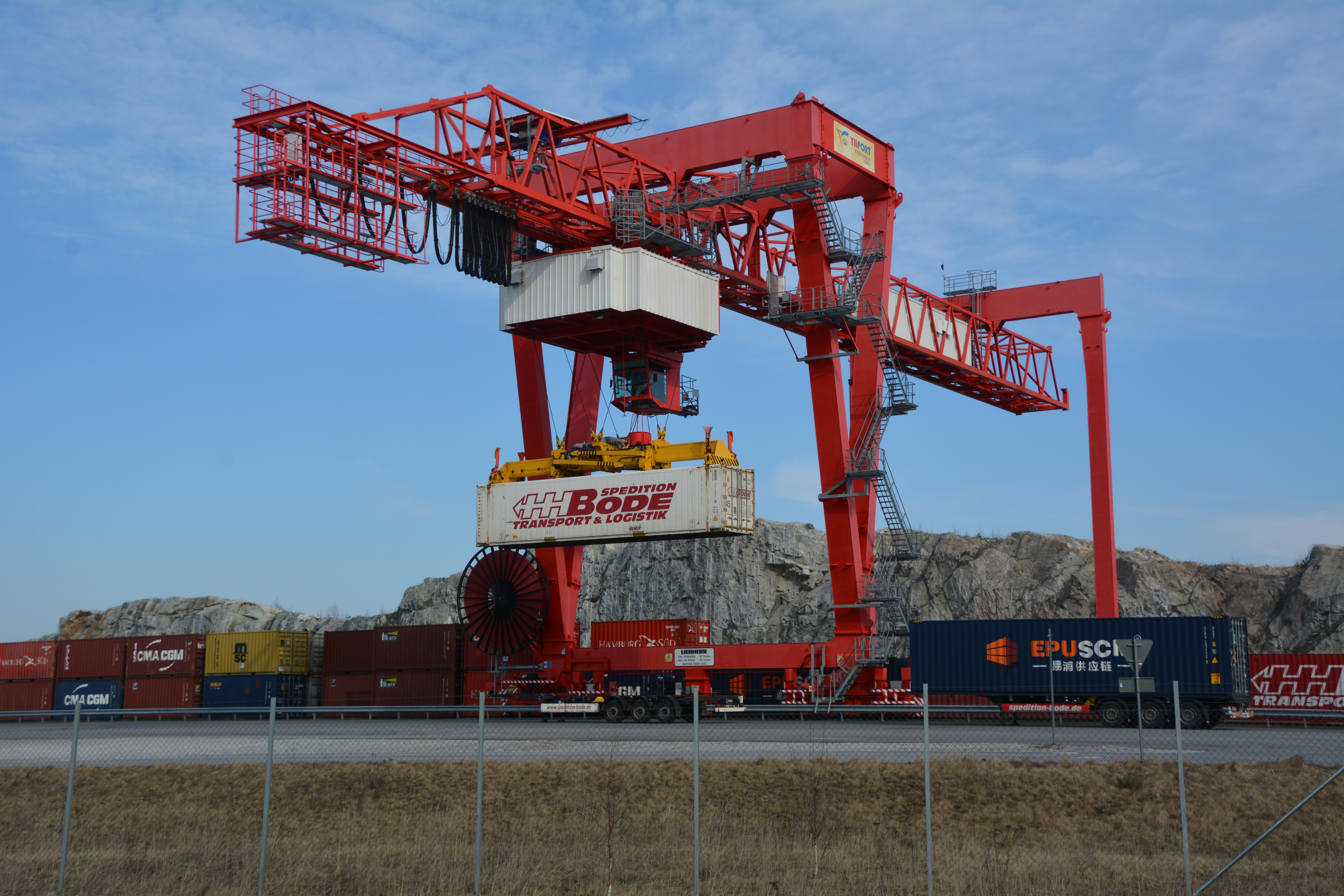 Lifted container at Logistikcenter Stockholm Nord